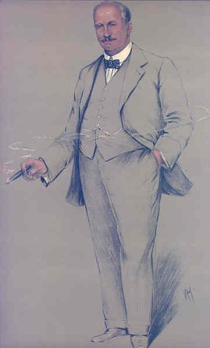 Men of the Day No.1306: Caricature of Arthur Frederick "Peggy" Bettinson Caption reads: "Peggy"